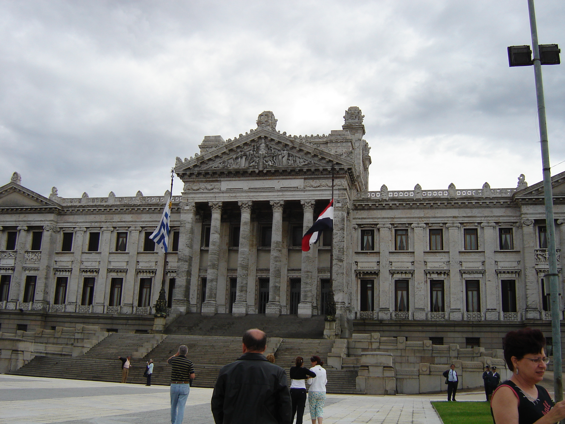 Uruguay national Congress (Photo taken by me)